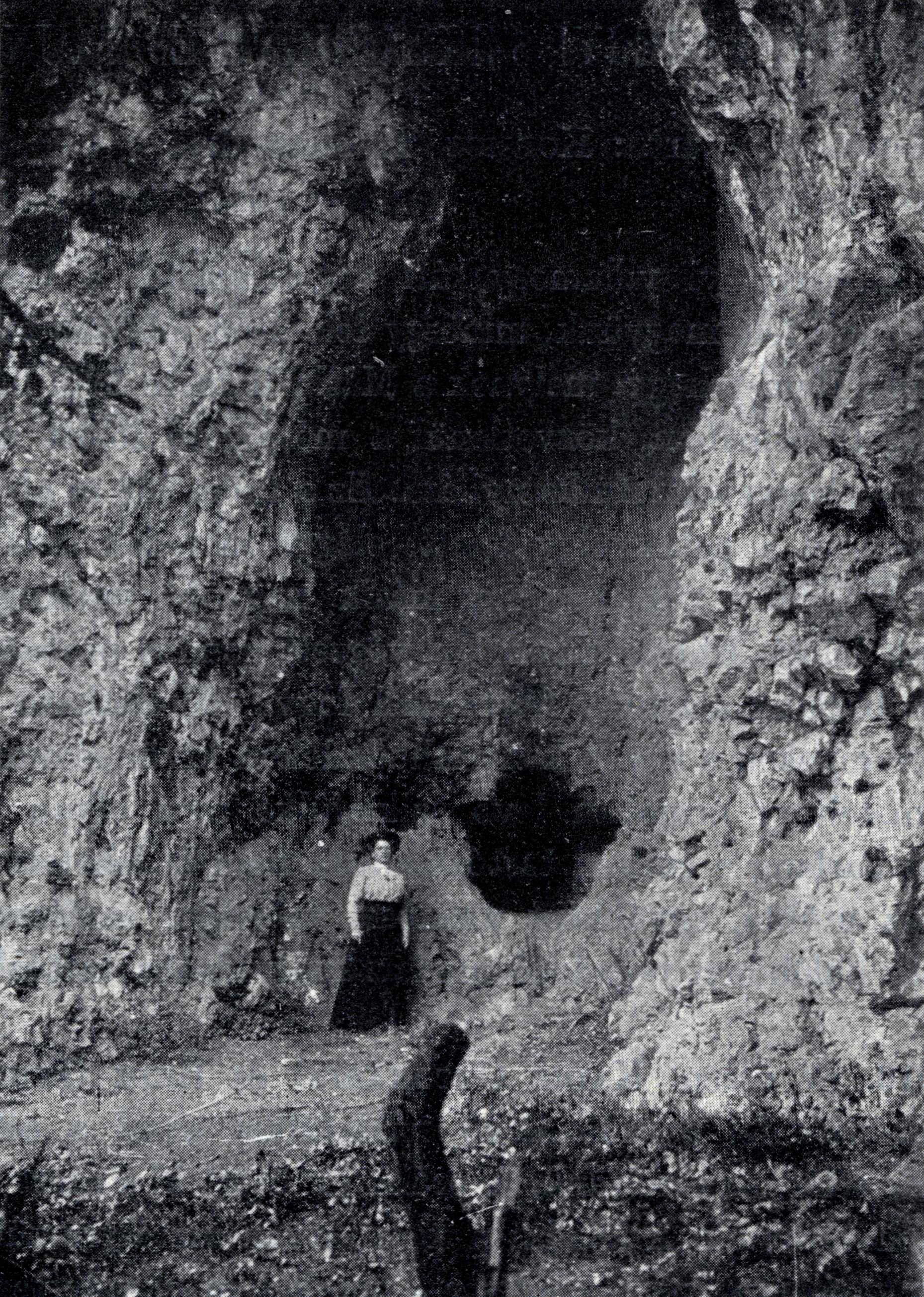 Remete-hegyi Niche.